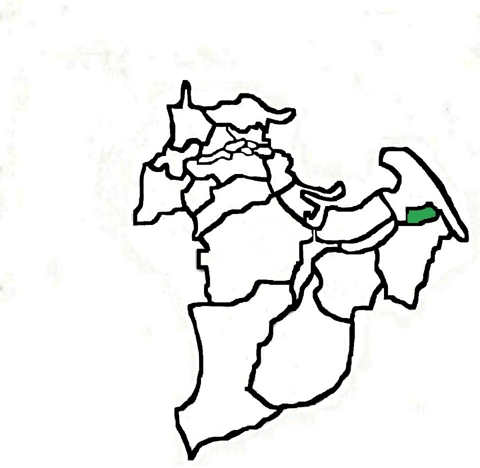 Aidashindentown Komatsushimacity Tokushimapref range